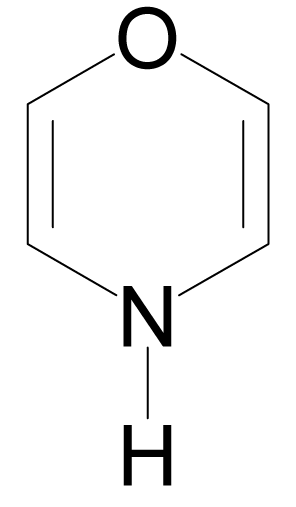 1,4-Oxazine